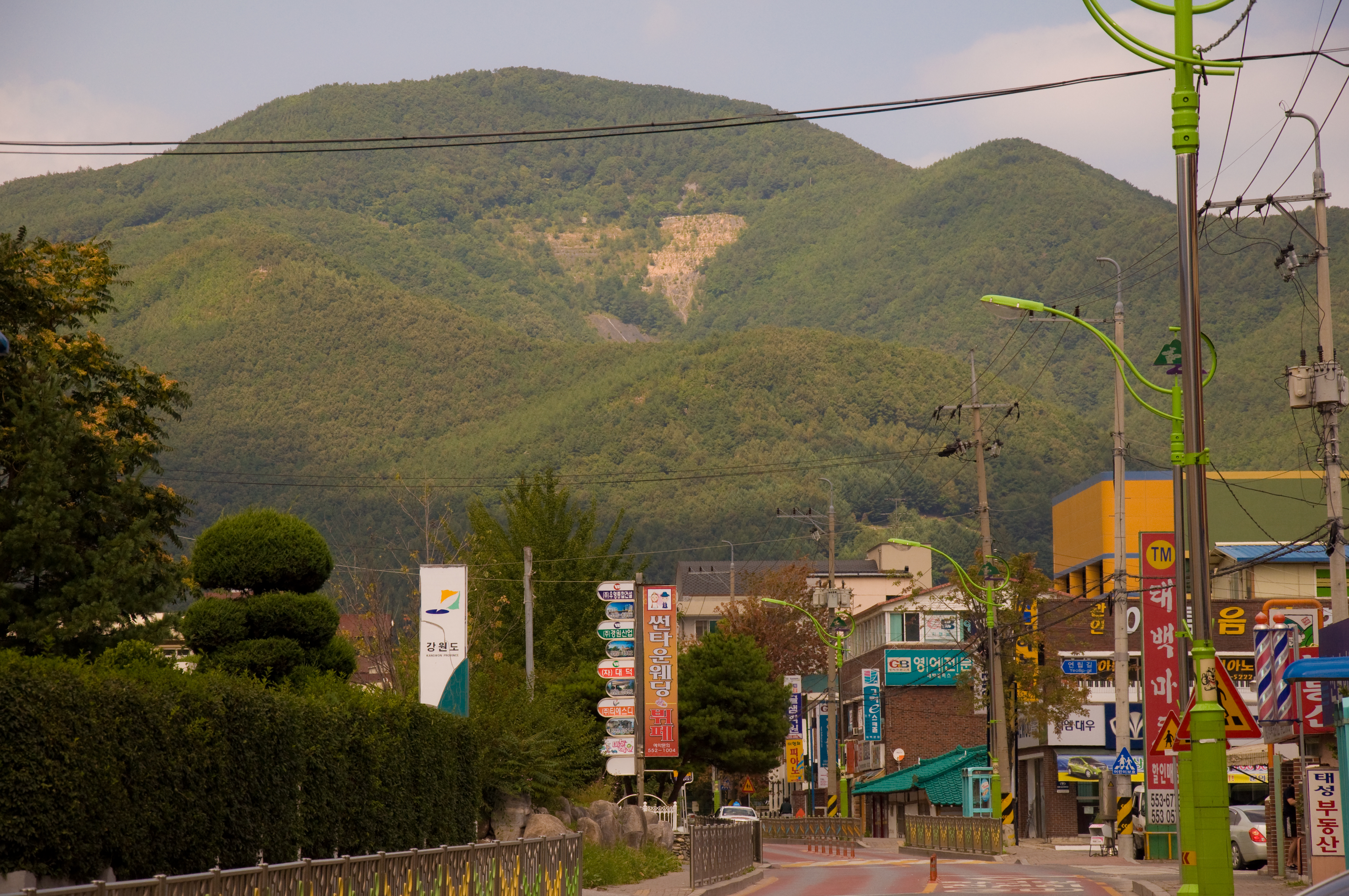 Taebaek - Town at the Foot of the Mountain